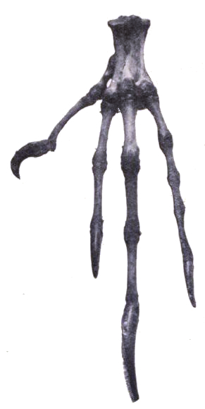 Foot of Fregata aquila - Bones of left foot. Sheath left on midanterior toe with "pectinated claw"